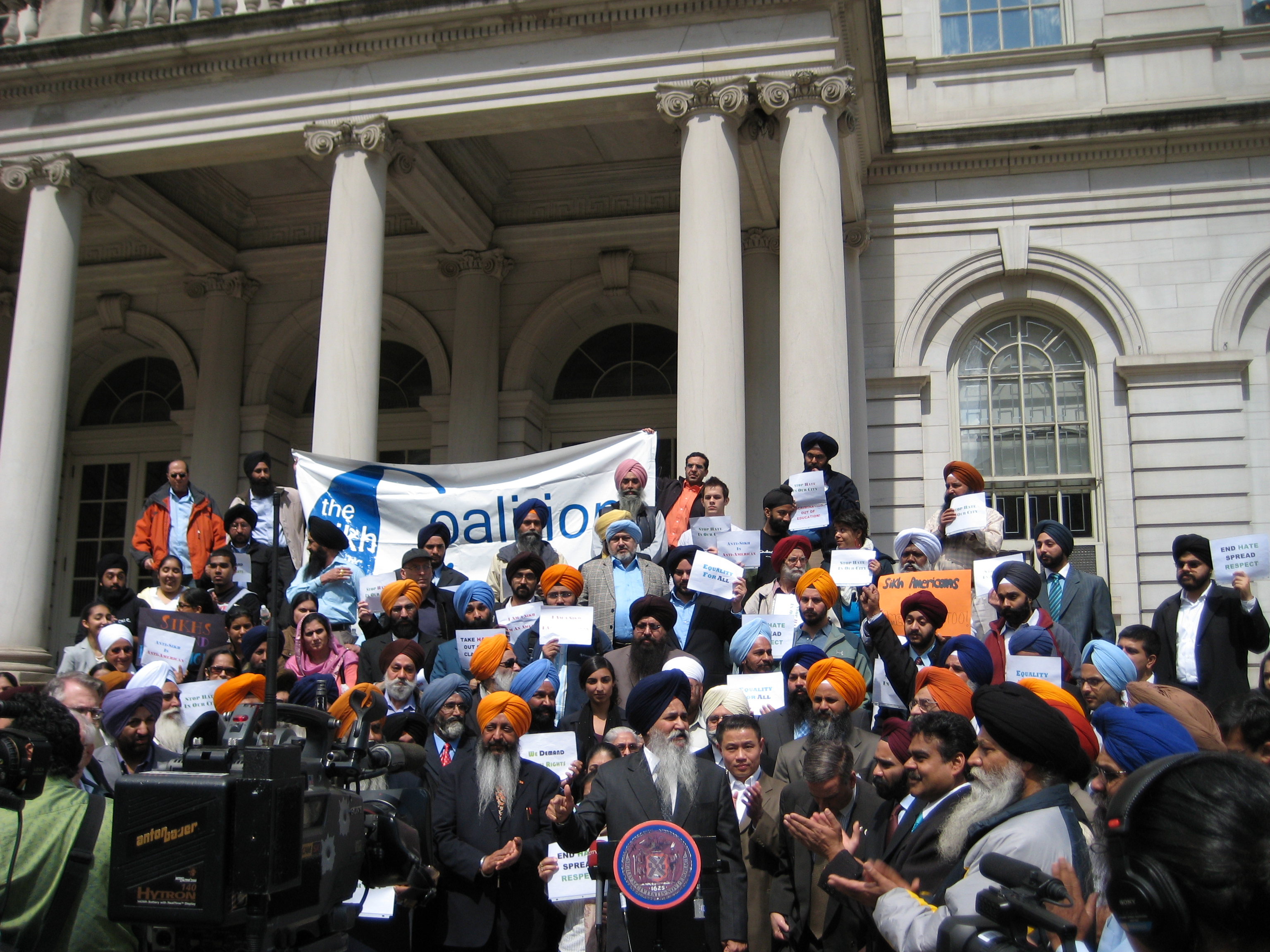 Civil Rights Rally